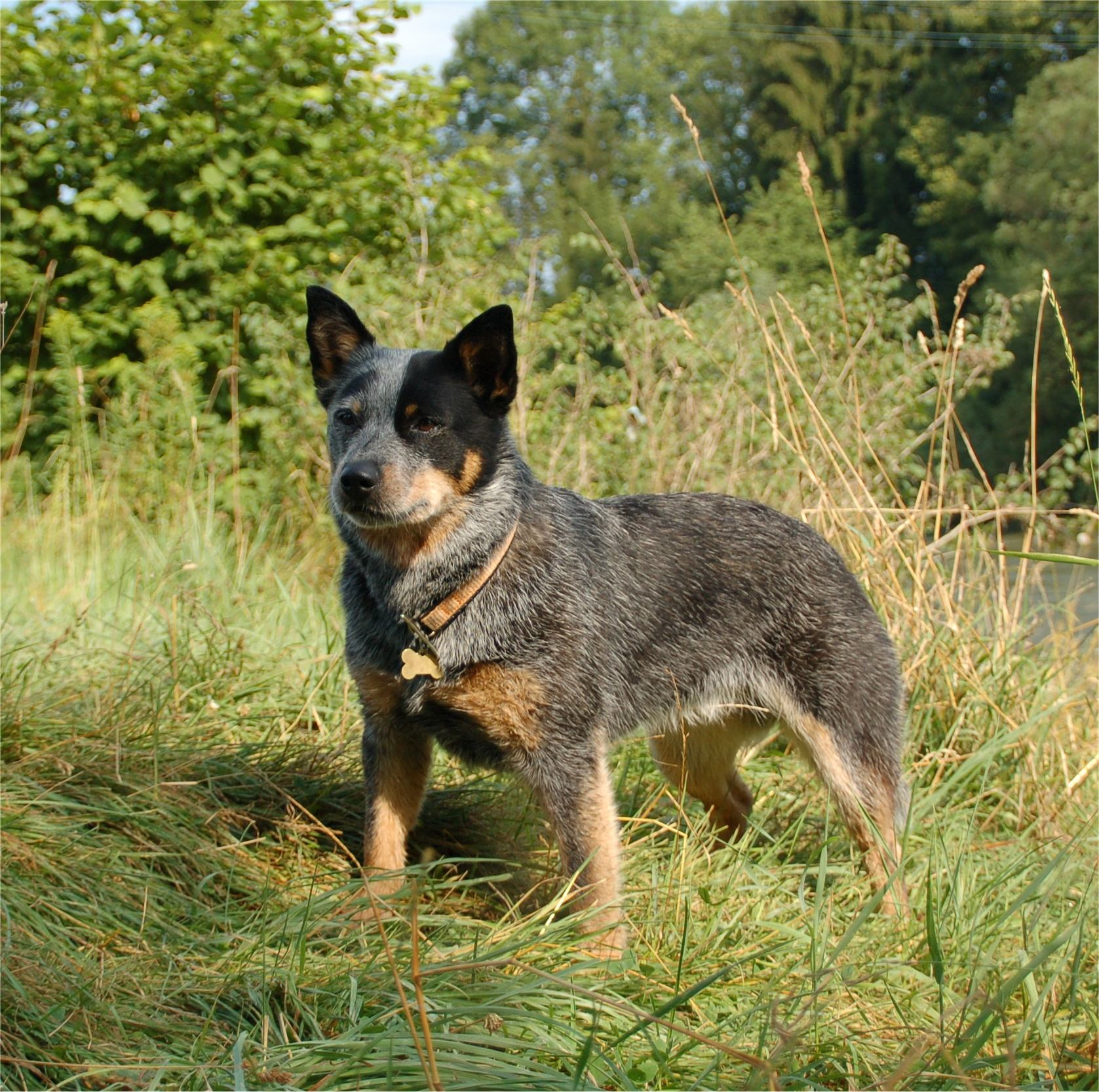 Australian Cattle Dogs (Multi Ch. Silveraurora's Super Mask + Ch.MK Avednigo)